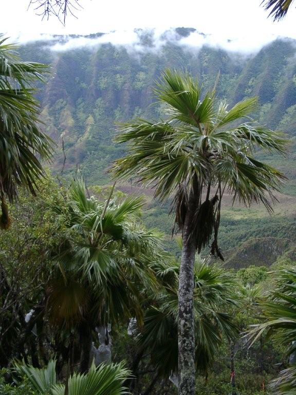 Pritchardia kaalae, loulu palm, is an endangered palm found only on the ridgelines above the Makua Valley Military Reservation on the Island of Oahu. The success of the Oahu Natural Resource Program in managing species like Pritchardia is directly tied to the success of military training in Hawaii. The Army’s live-fire training areas on Oahu are used by more than 20,000 soldiers, Marines, Airforce, Navy, National Guard, and local police departments for training.